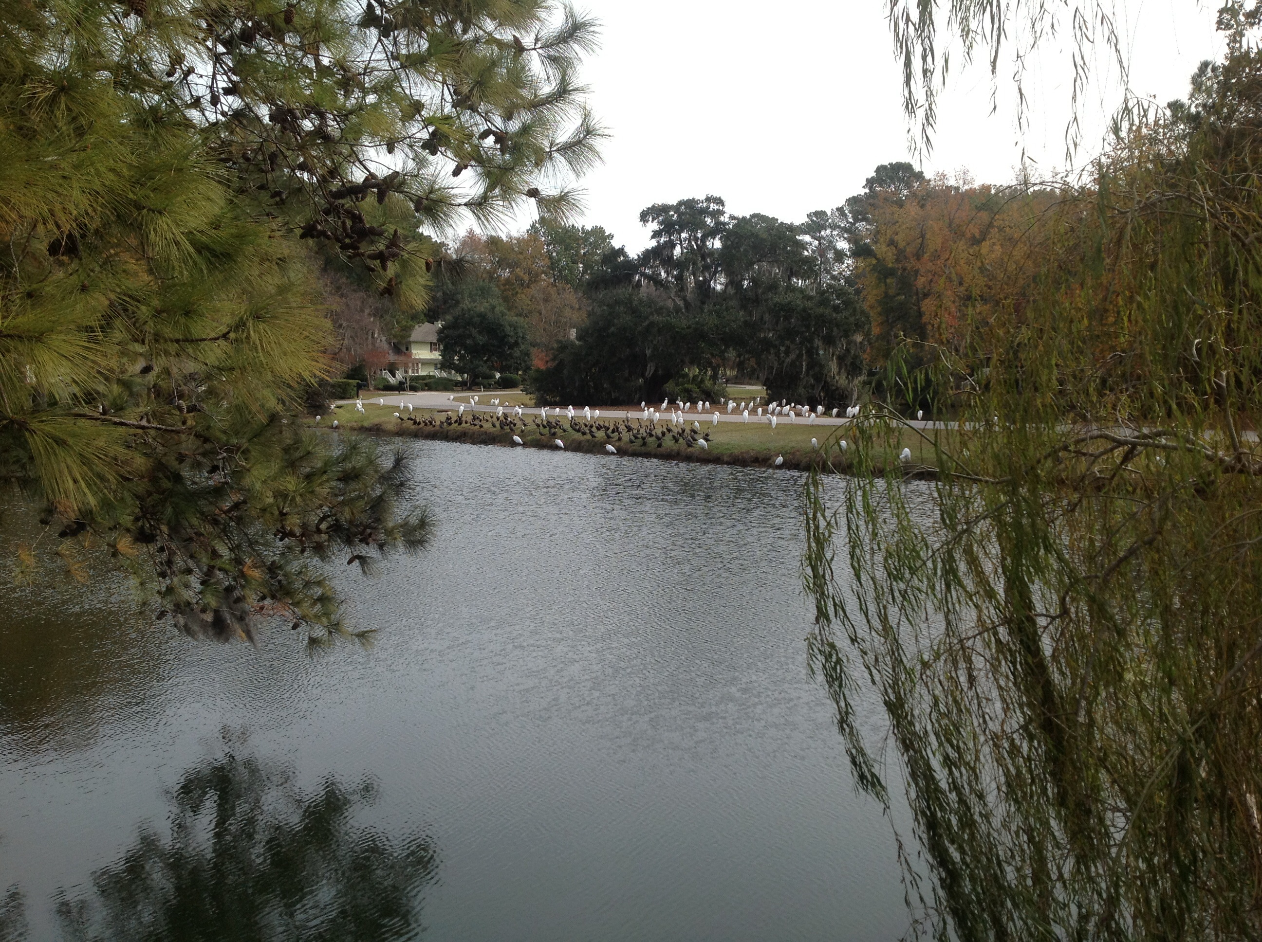 Wildlife on Heron Walk lagoon towards Callawassie Drive